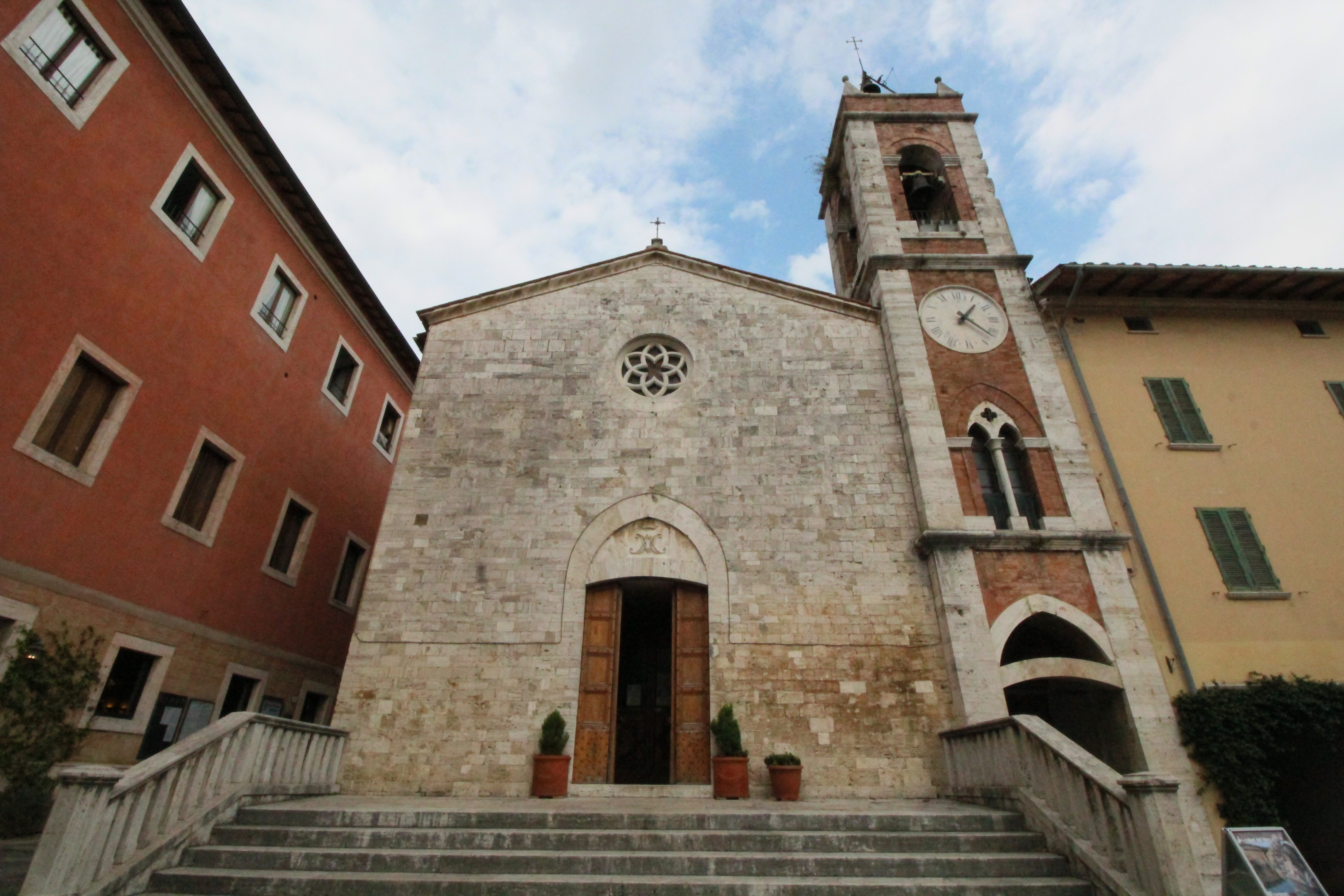 Church Chiesa della Madonna di Vitaleta, also called San Francesco (because built in the late 19th Century on the ruins of the Monastery of San Francesco), San Quirico d'Orcia, Province of Siena, Tuscany, Italy